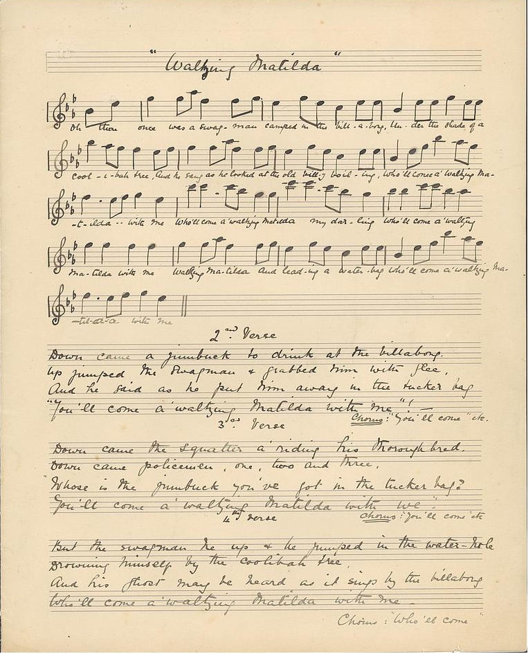 Original lyrics of â€˜Waltzing Matildaâ€™ c.1895 Music by Christina Rutherford Macpherson (1864â€“1936) based on a remembered tune Words by A.B. (Banjo) Paterson (1864â€“1941) music and lyrics written down by Christina Macpherson ink on paper; 31.0 x 24.8cm Manuscript Collection National Library of Australia